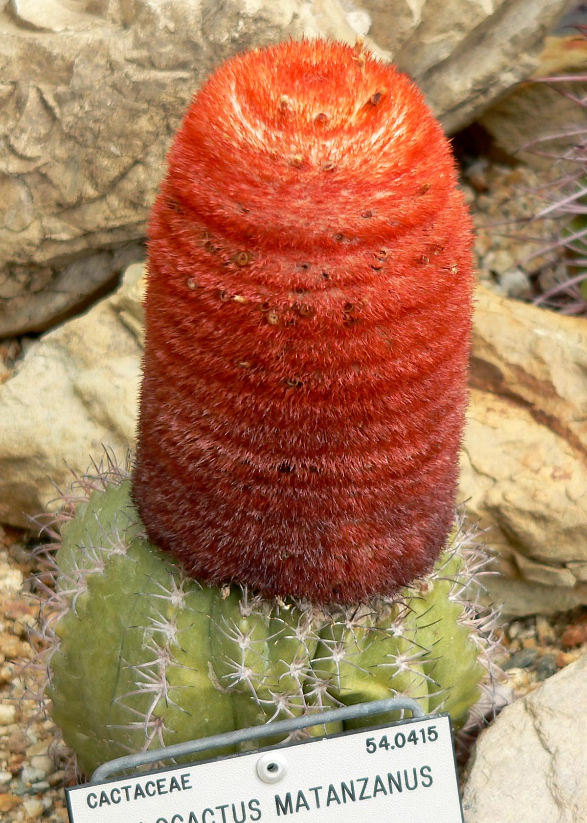 Photo of Melocactus matanzanus at the University of California Botanical Garden